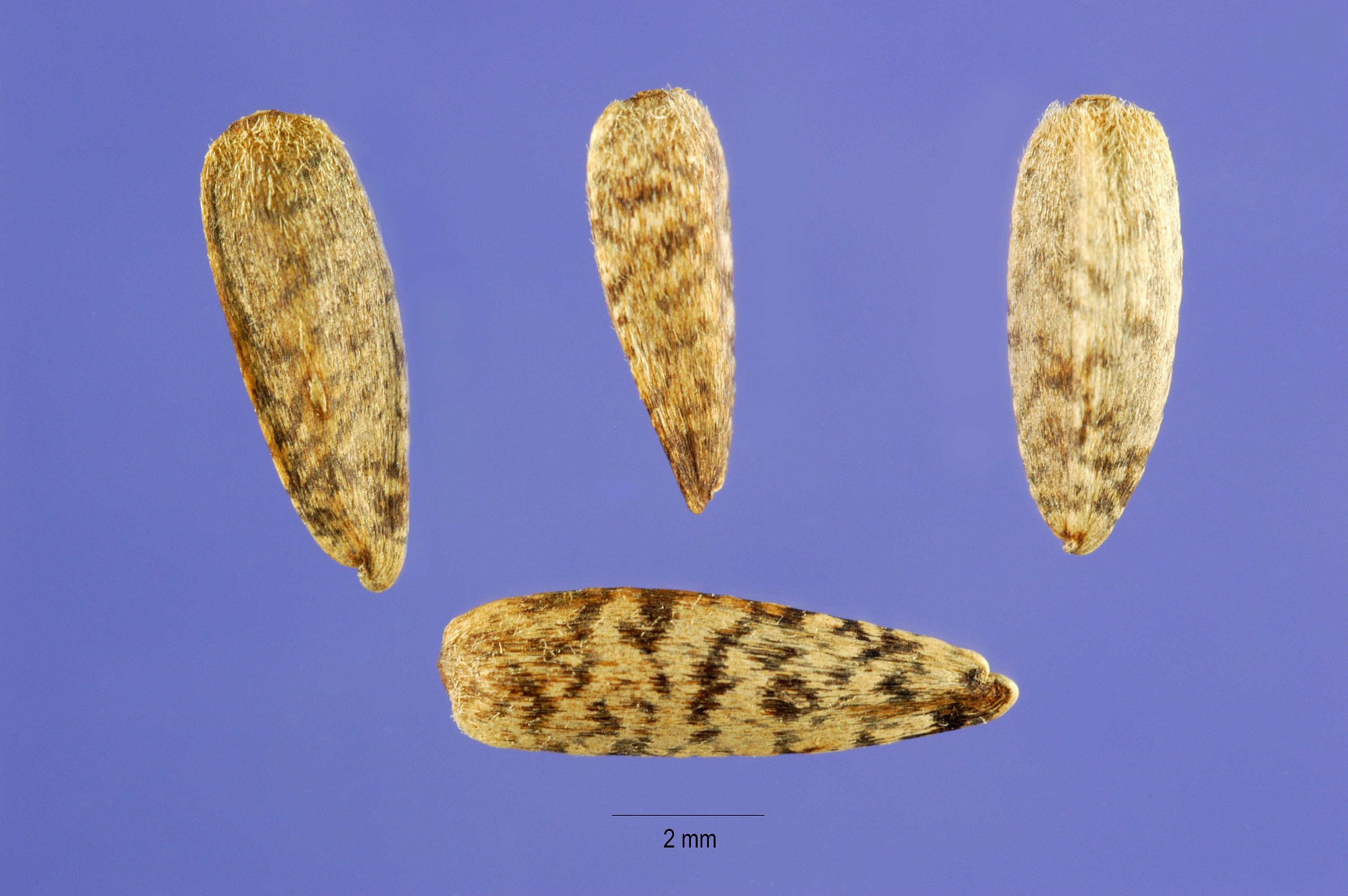 Cypselae (fruit) of Helianthus tuberosus